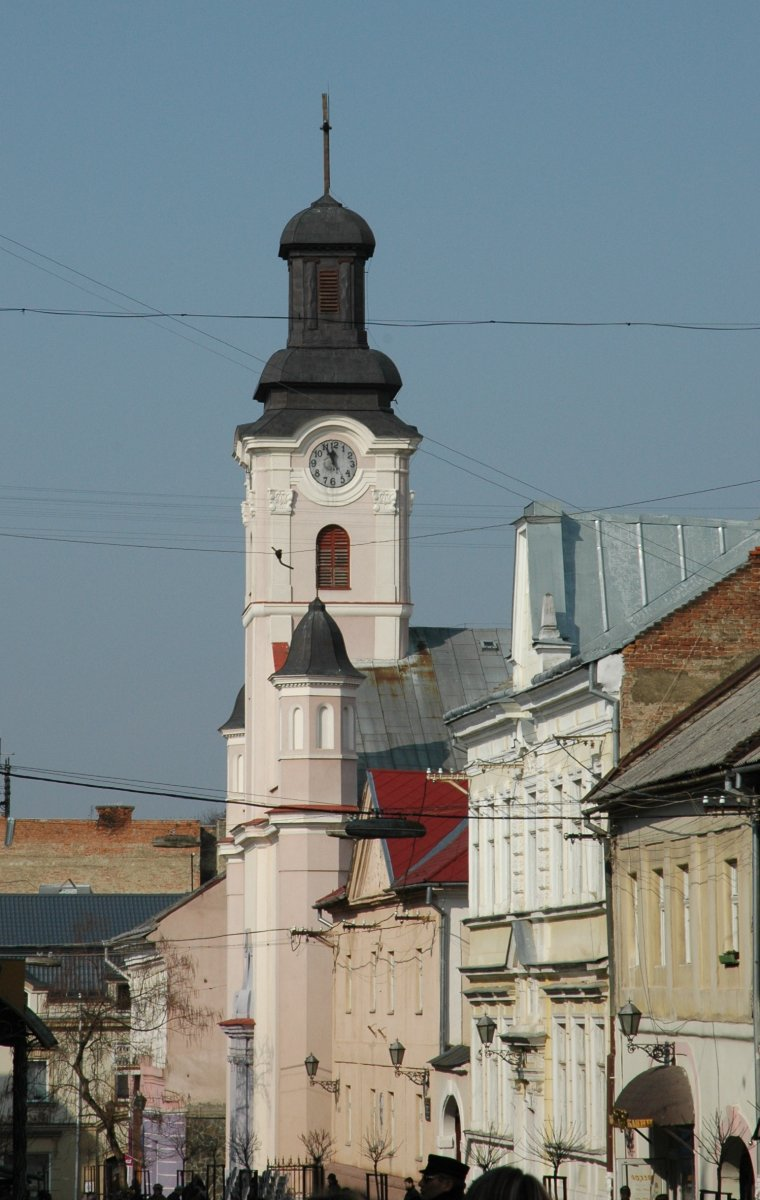 The roman catholic church in Uzhhorod (Ukraine)